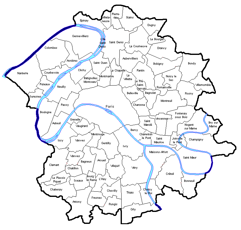 Show Seine communes and boundaries in 1860